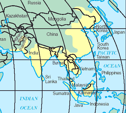 Diagram of Channa distribution from USGS en: Circular 1251